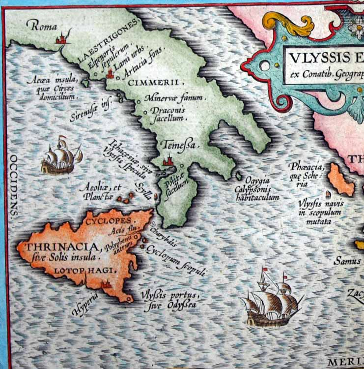 ARRIAN'S WORLD as depicted by ORTELIUS, 1624